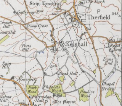 This is a map of the civil parish, Kelshall, from the 20th Century